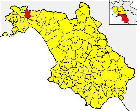 Locator map of the municipality of Mercato San Severino (red) within the Province of Salerno